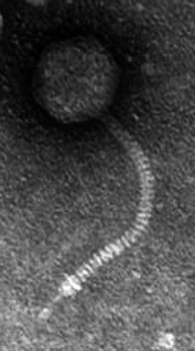 The mycobacteriophage Bxb1 uses a novel enzyme to remove itself from its bacterial host's genome before launching an infection.